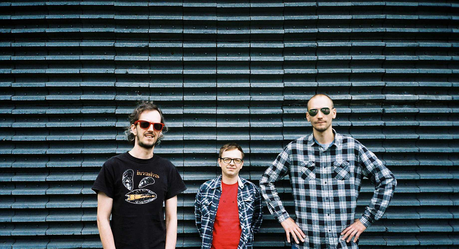 Plum: Rafał Piekoszewski, Marcin Piekoszewski, Adam Nastawski